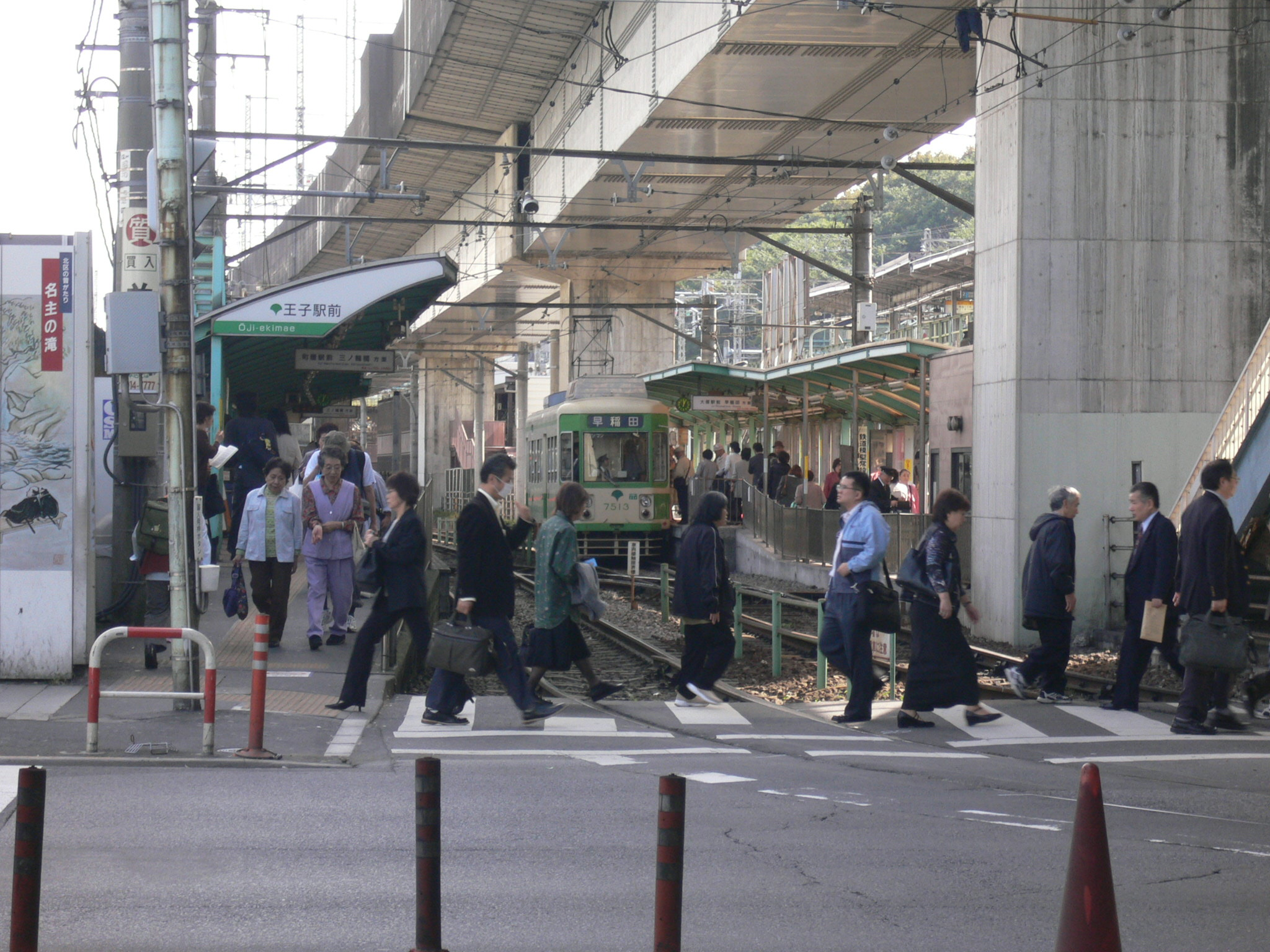 Ojiekimae Staion (王子駅前駅), Kita W, Tokyo M.